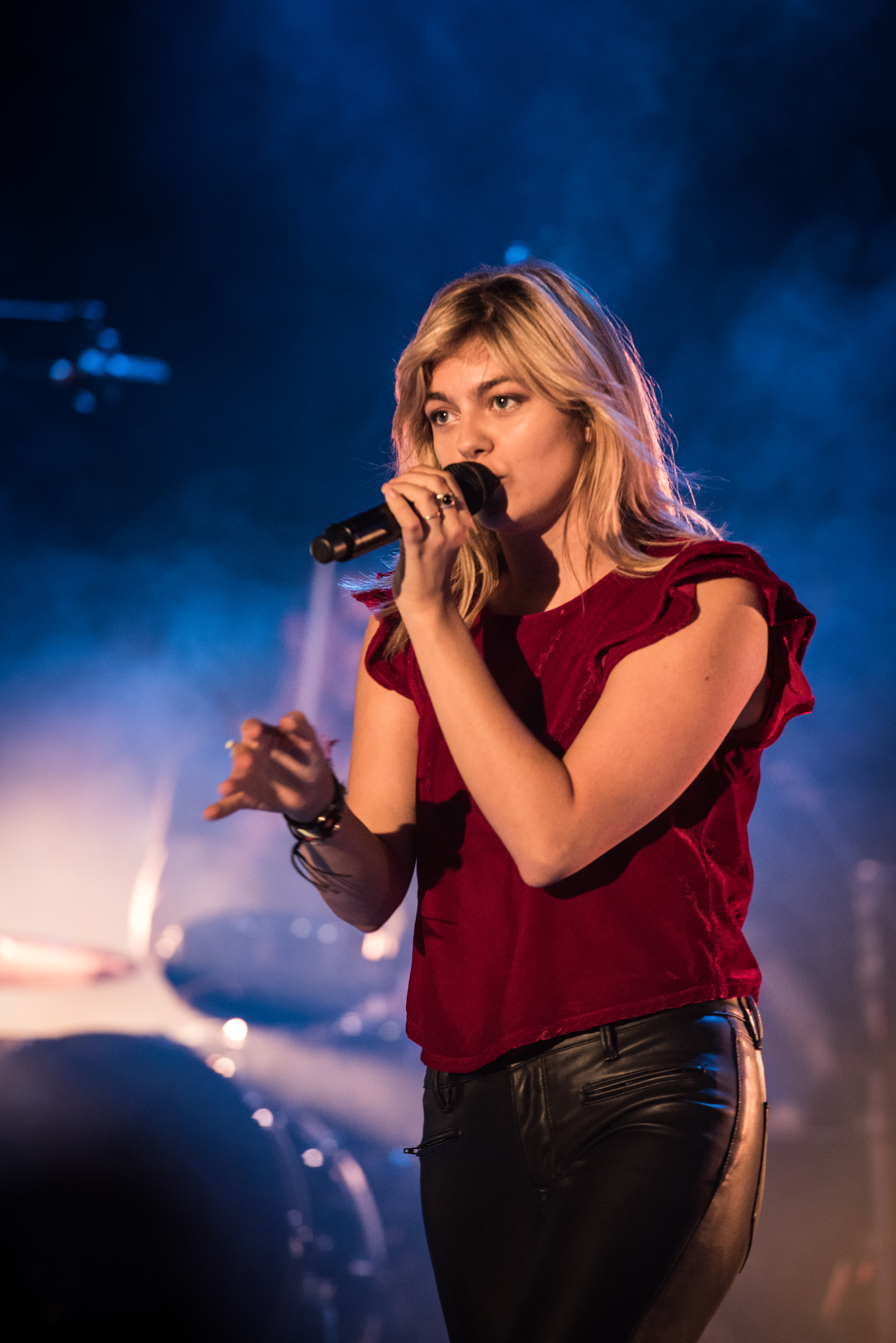 French singer and actor Louane Emera at the SWR3 New Pop Festival 2017